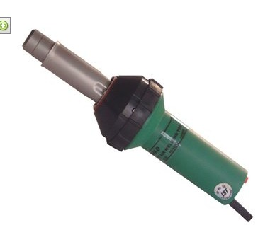 1000w hot air plastic welding tools